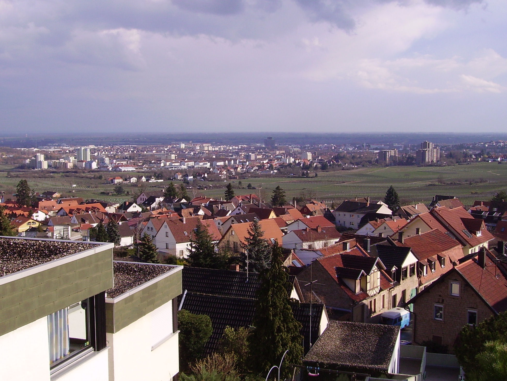 view of Neustadt an der Weinstraße, Germany